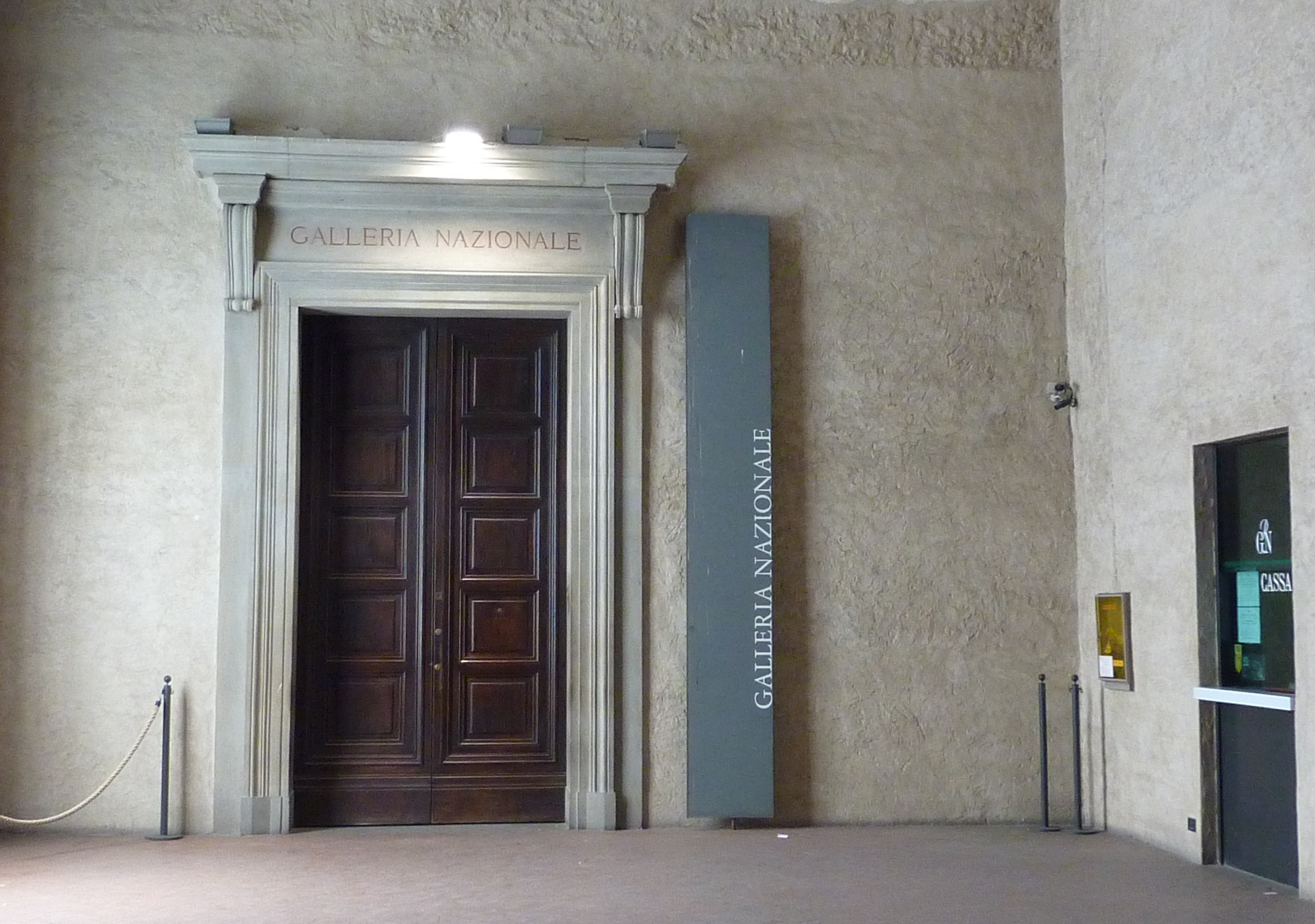 The entry of the Galleria Nazionale (Parma).